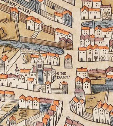 Saint-Médard church on the plan of Truschet and Hoyau (1550).